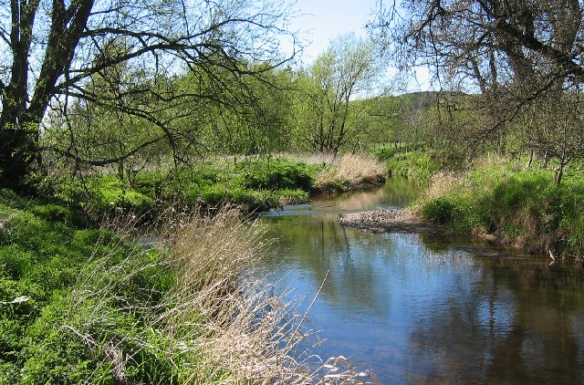 Bowmont Water. At the point where the Kilham burn joins the Bowmont Water. Follow Bowmont Water Upstream 165340 Follow Kilham Burn 165346 Move Downstream 165374